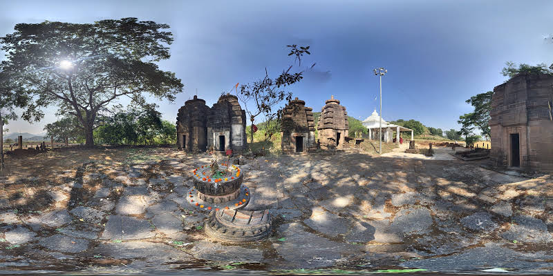 360° view of the Subai Jain temple dating back to 6th century of Koraput district, Odisha, India